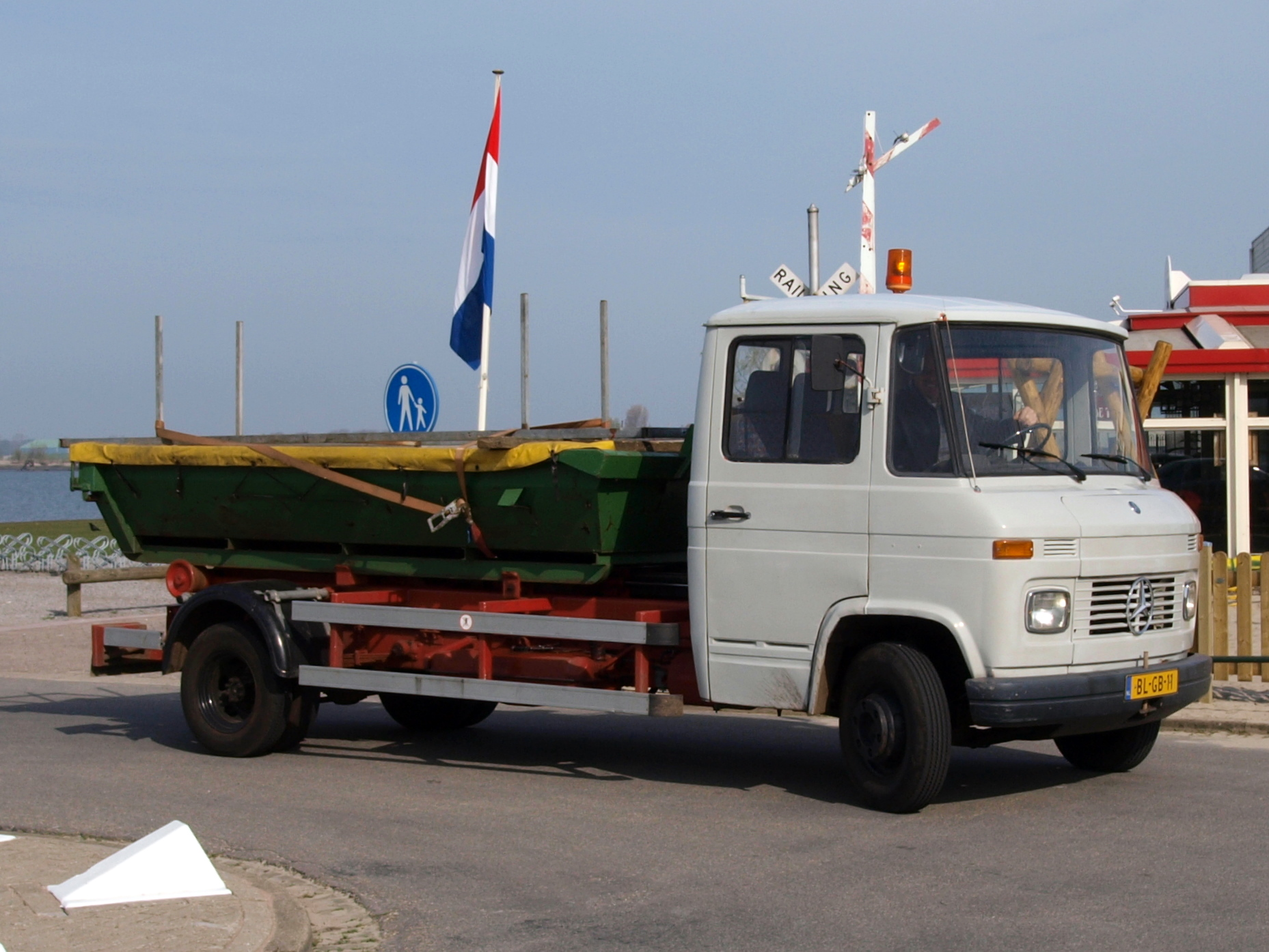 Cars and motorcycles photographed at the Voorschotense Oldtimer Vereniging Show, Valkenburgse meer, The Netherlands. OLYMPUS DIGITAL CAMERA